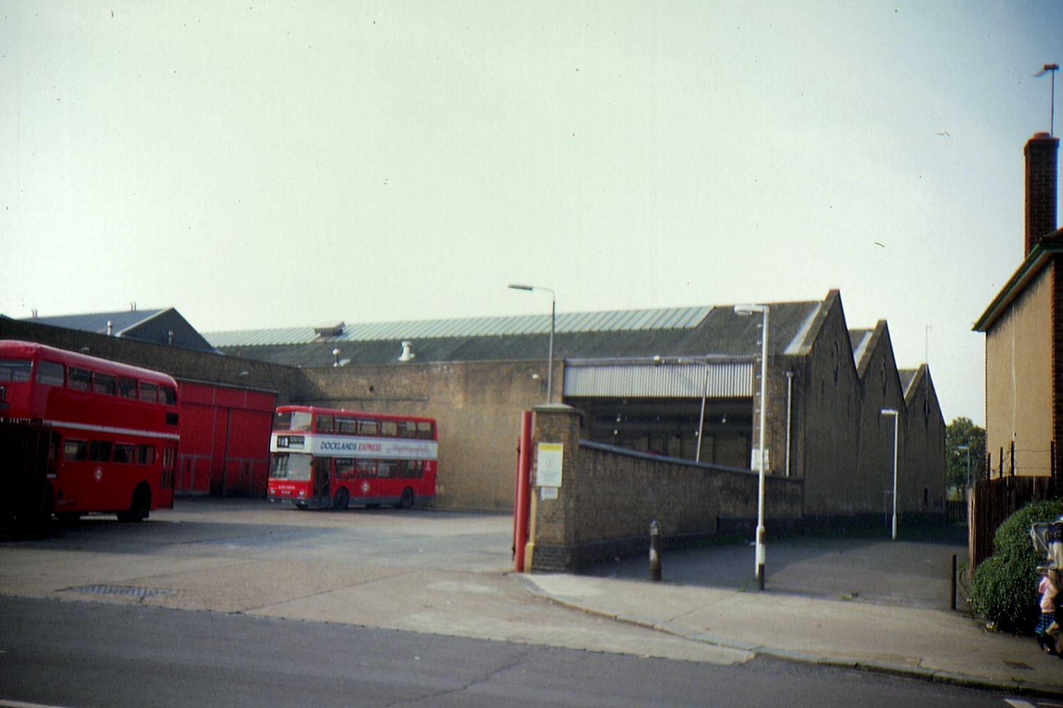 Former West Ham Bus Garage (1), Data from Geograph: Description: Situated in Greengate Street E13 0AS, this bus garage opened as a tram depot in October 1906, then began operating trolleybuses from June 1937 until April 1960. Motorbus operation commenced in November 1959 until October 1992 when... more ICBM: 51.528131115626, 0.026175936905824 Location: (about 0 km from) near to West Ham, Newham, Great Britain.